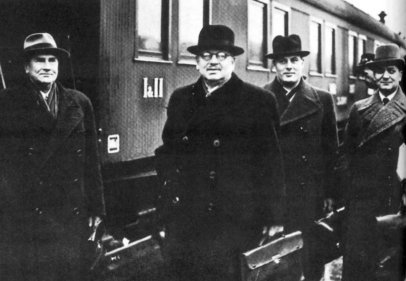 Counsellor of state Juho Kusti Paasikivi arriving from negotiations in Moscow 16 October 1939. From left Aarno Yrjö-Koskinen, J.K. Paasikivi, Johan Nykopp and Aladár Paasonen.